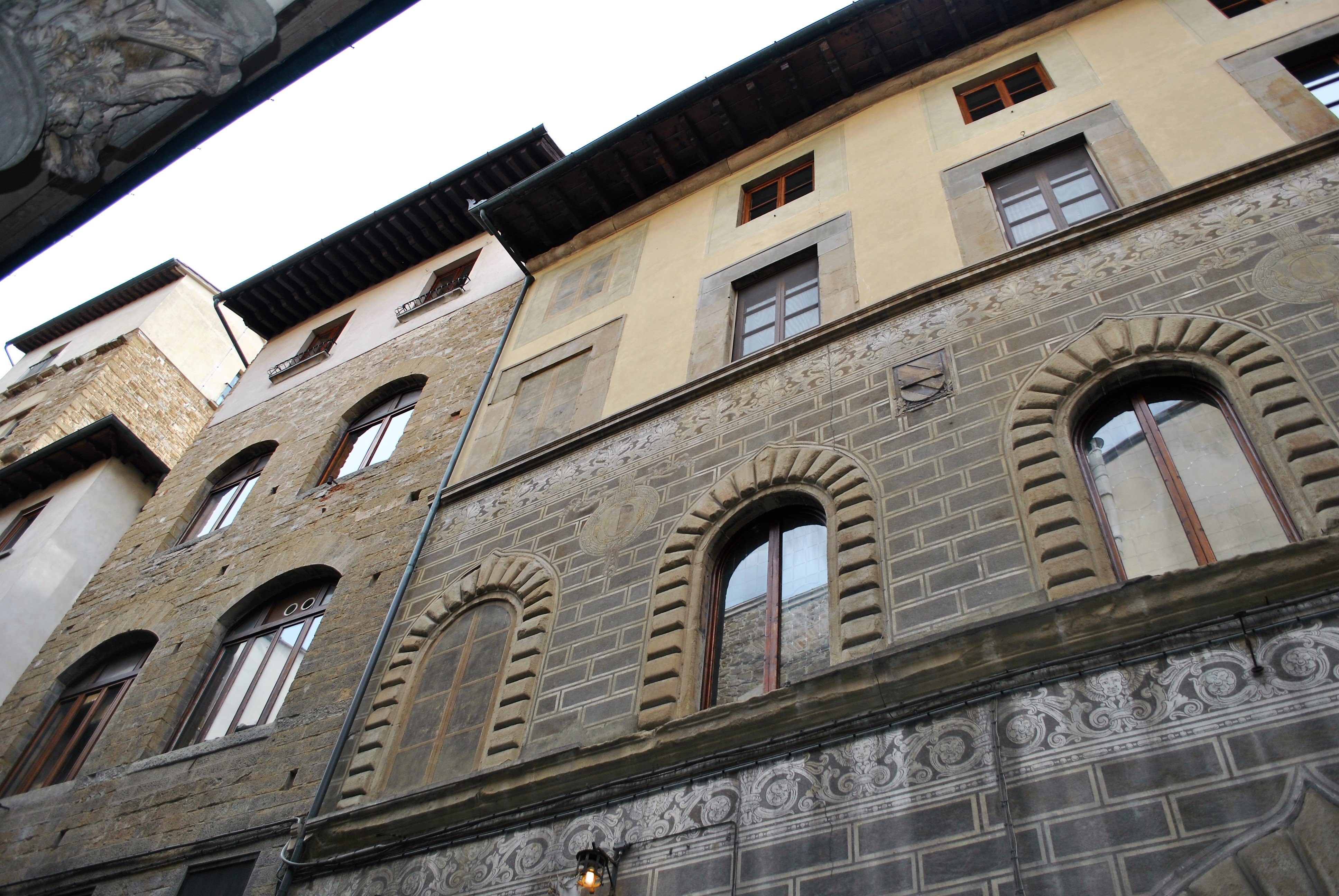 Image originally published in Queer Places: Retracing the Steps of LGBTQ people around the World Authored by Elisa Rolle